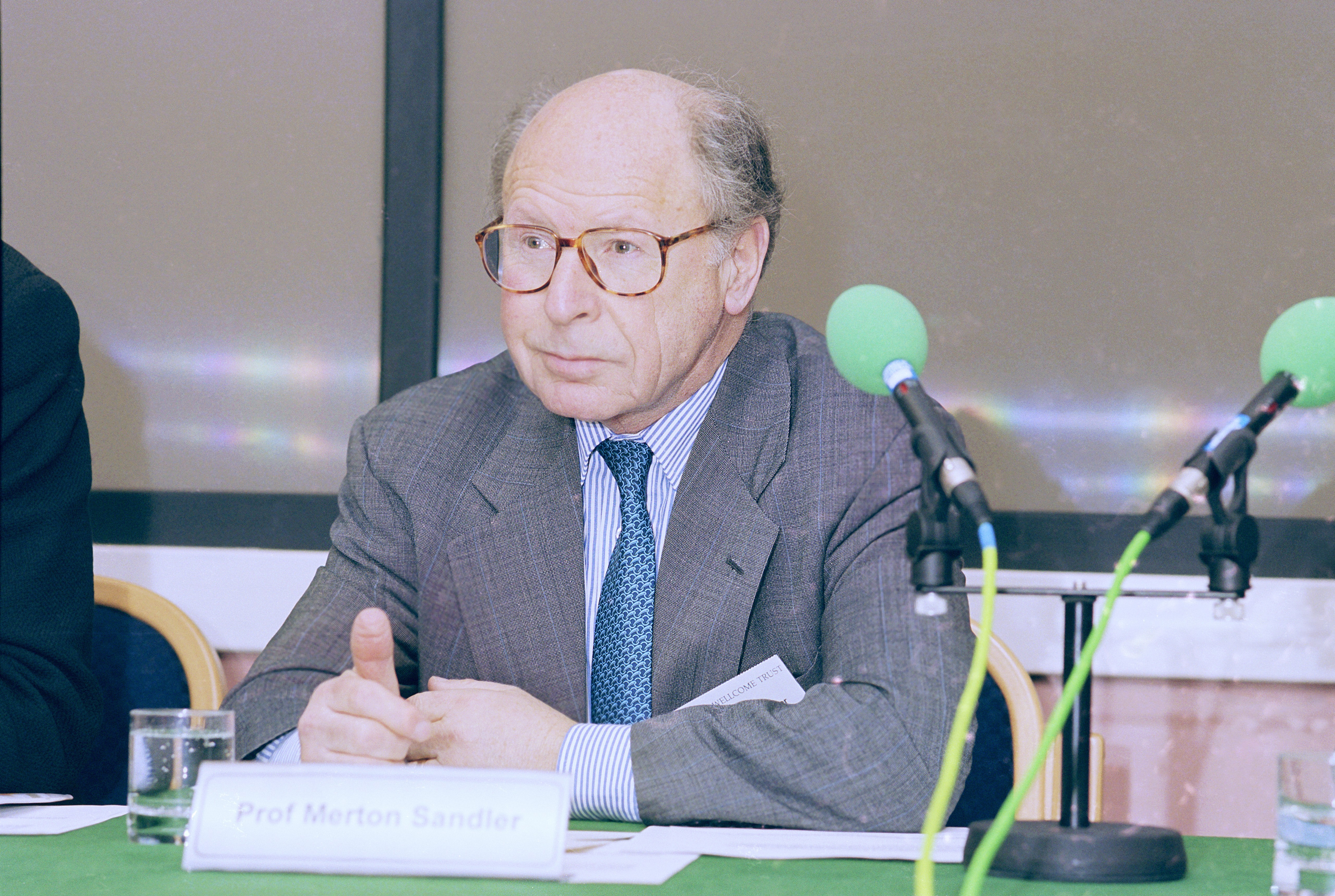 Taken at the Witness Seminar “Drugs in Psychiatric Practice” held by the History of Twentieth Century Medicine Group.